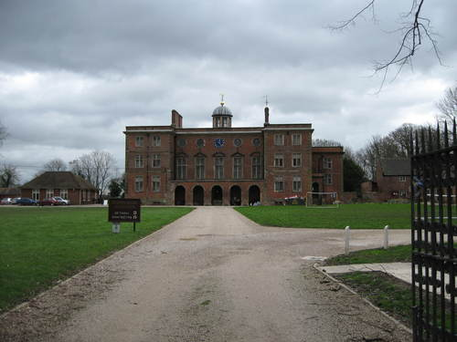 Front View Of The Sir John Moore Church Of England School